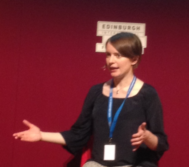 Emily St John Mandel at the 2015 Edinburgh International Book Festival